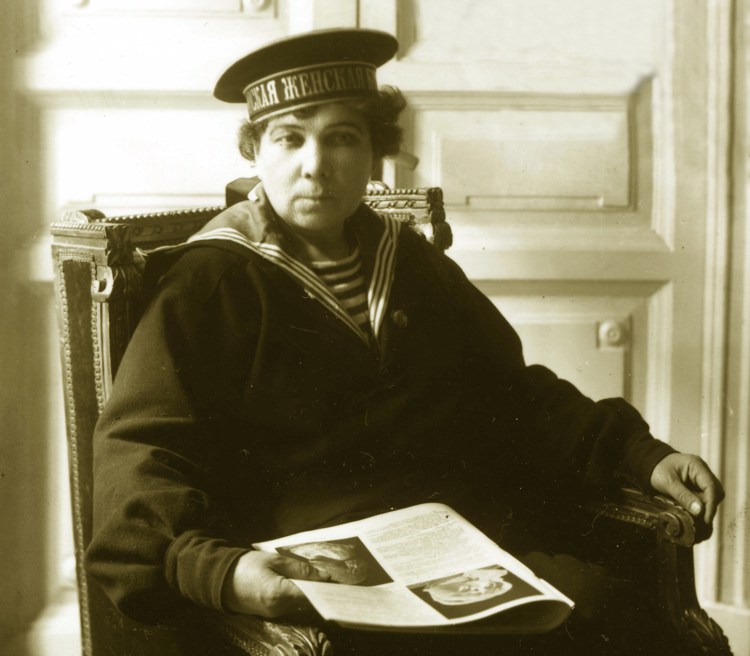 Evdokia Skvortsova, sailor of the first Russian women’s naval unit